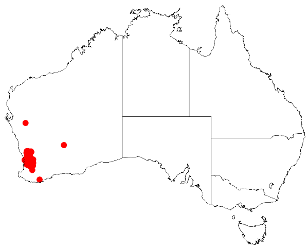 Scaevola platyphylla occurrence data downloaded from Australasian Virtual Herbarium on 12 May 2019